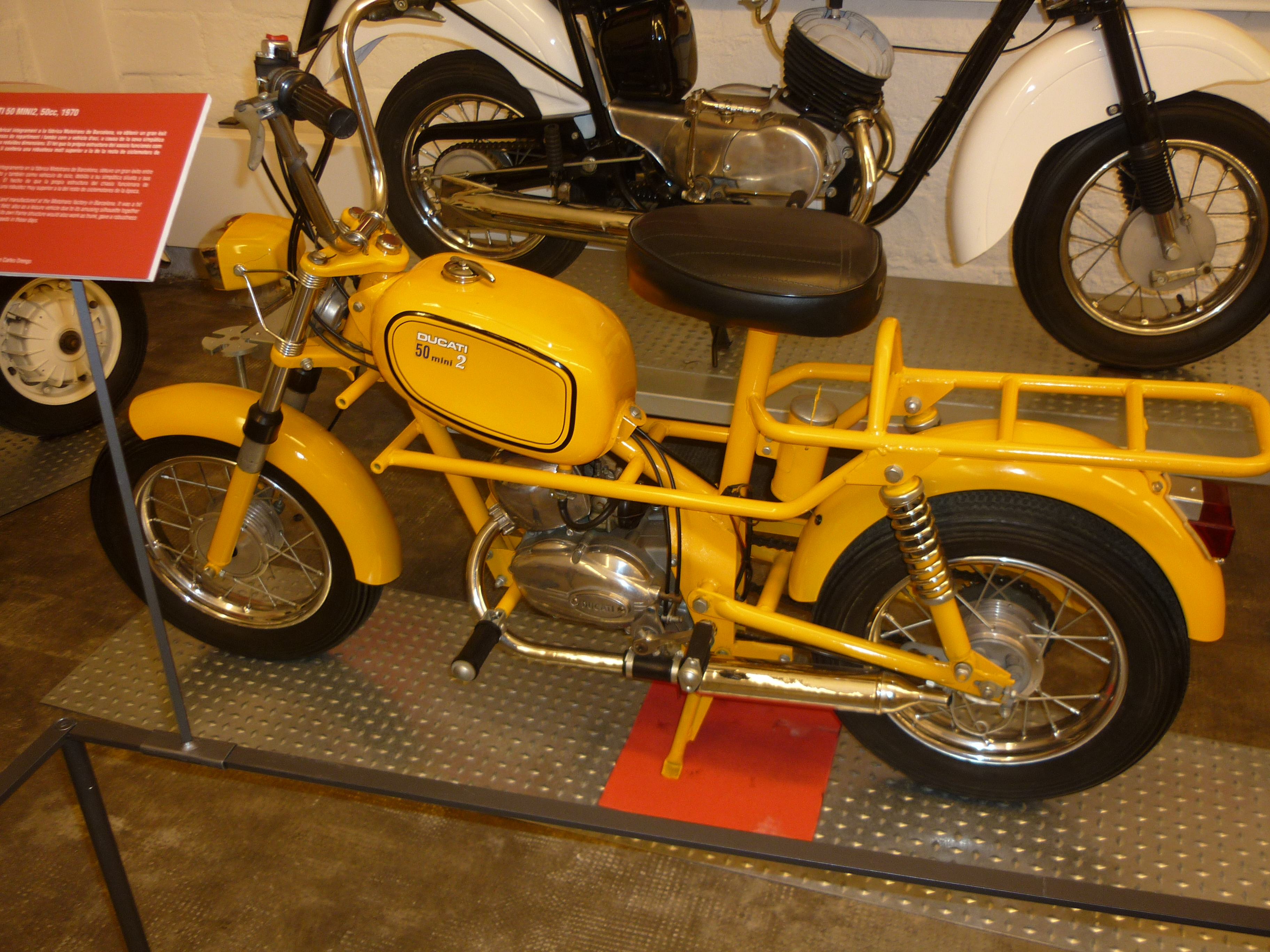 Ducati 50 Mini2 50cc, 1970. Designed and manufactured at Mototrans factory (Barcelona). Its own frame structure would also work as trunk.